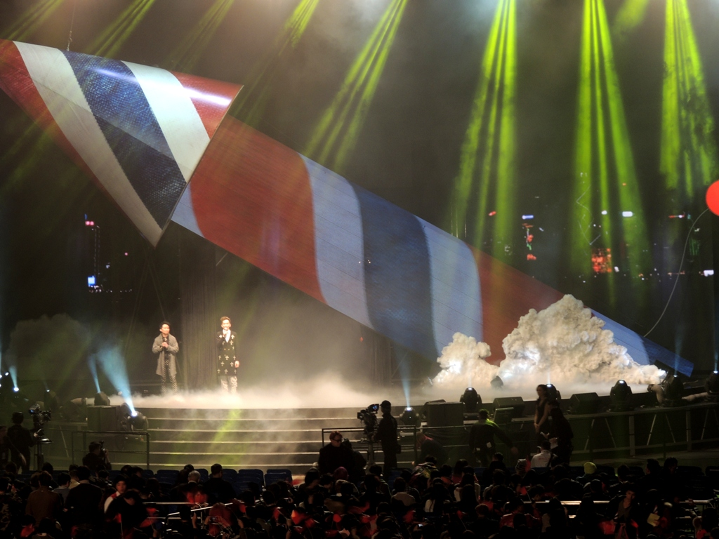 Ultimate Song Chart Awards 2012 main stage